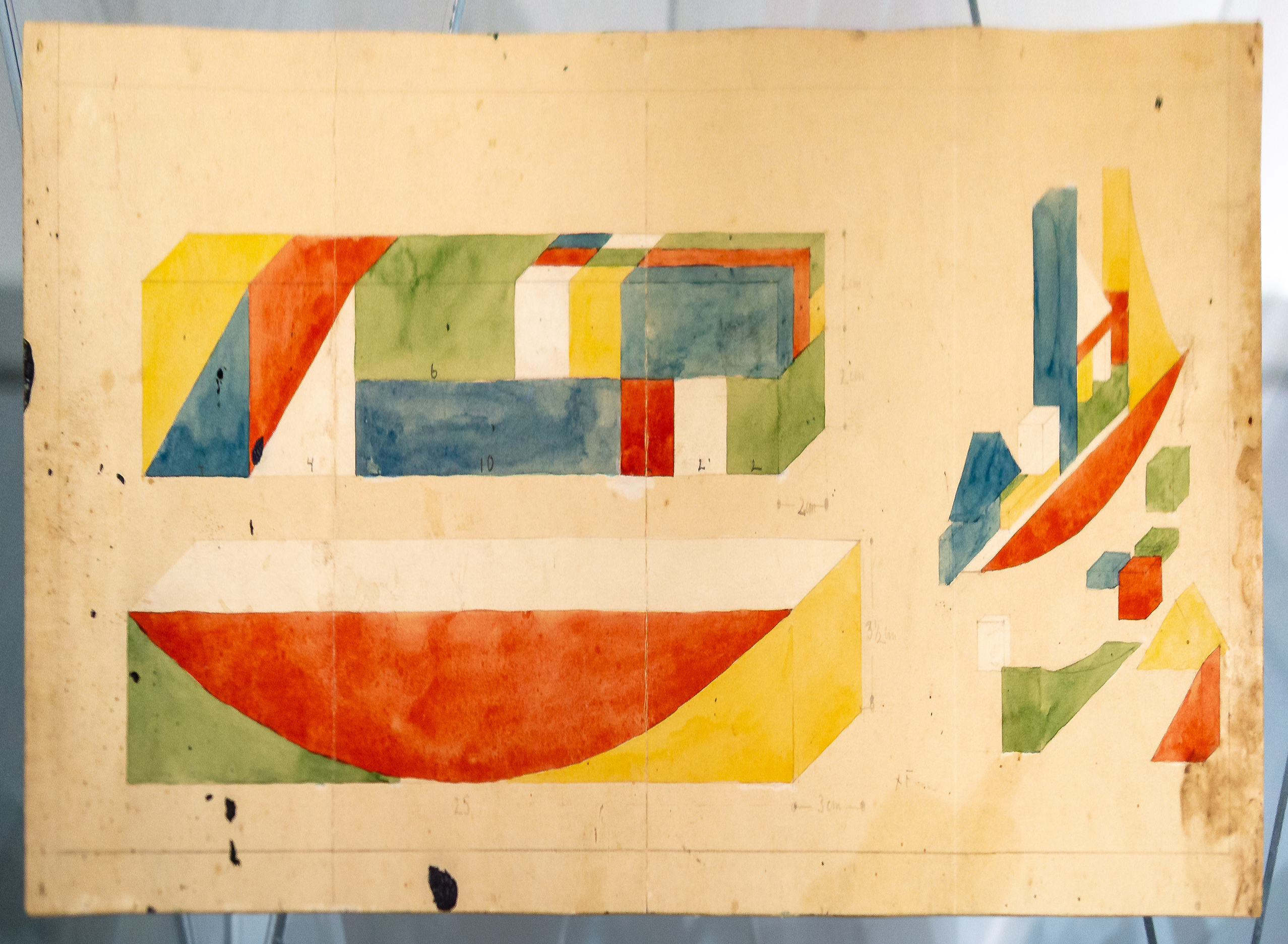 Small ship-building game, design